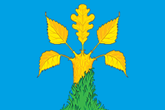 Flag of Staromaklaushinskoe rural settlement, Ulyanovsk oblast, Russia